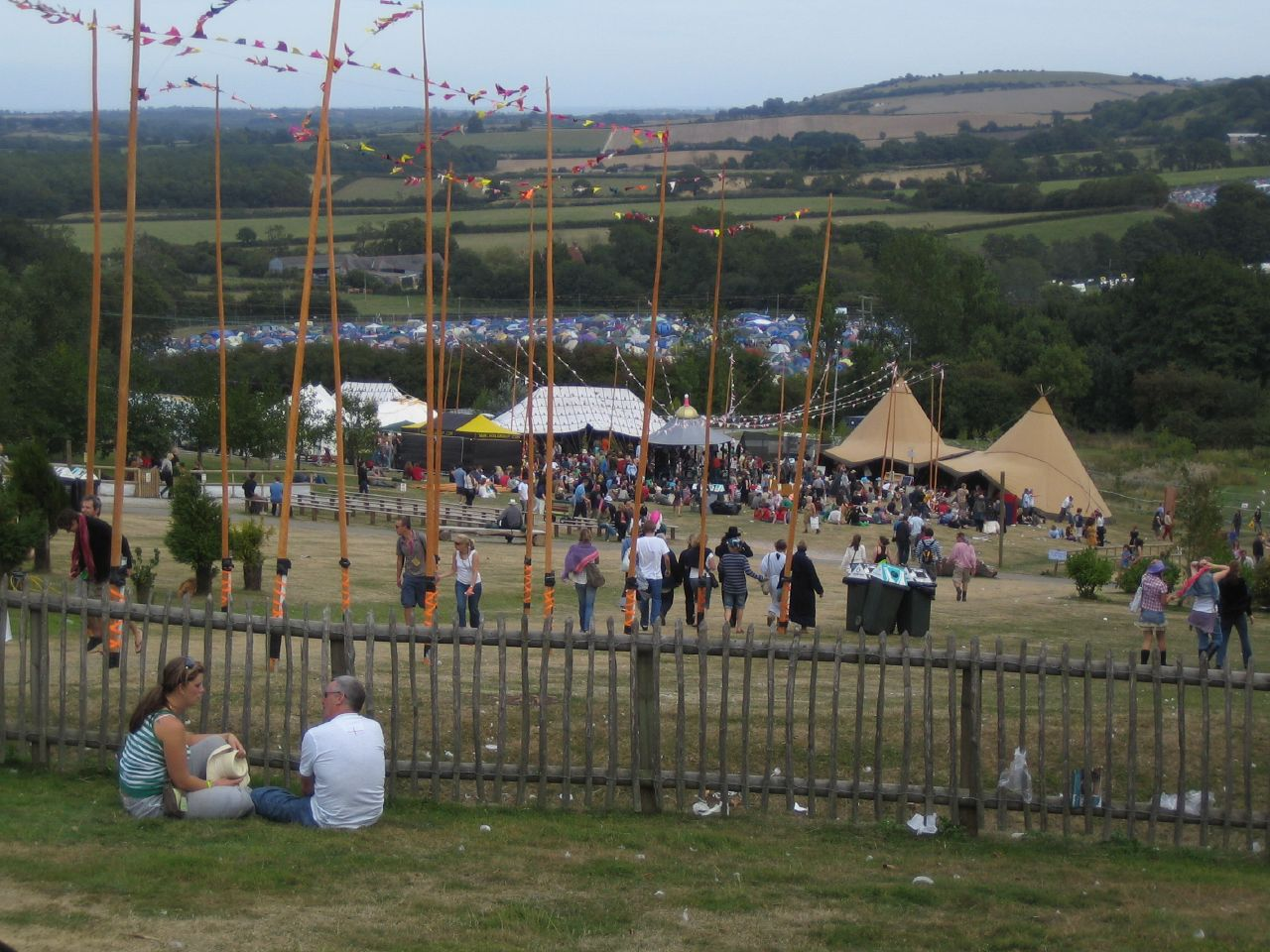 The view over Robin Hill, Isle of Wight, during Bestival 2006.